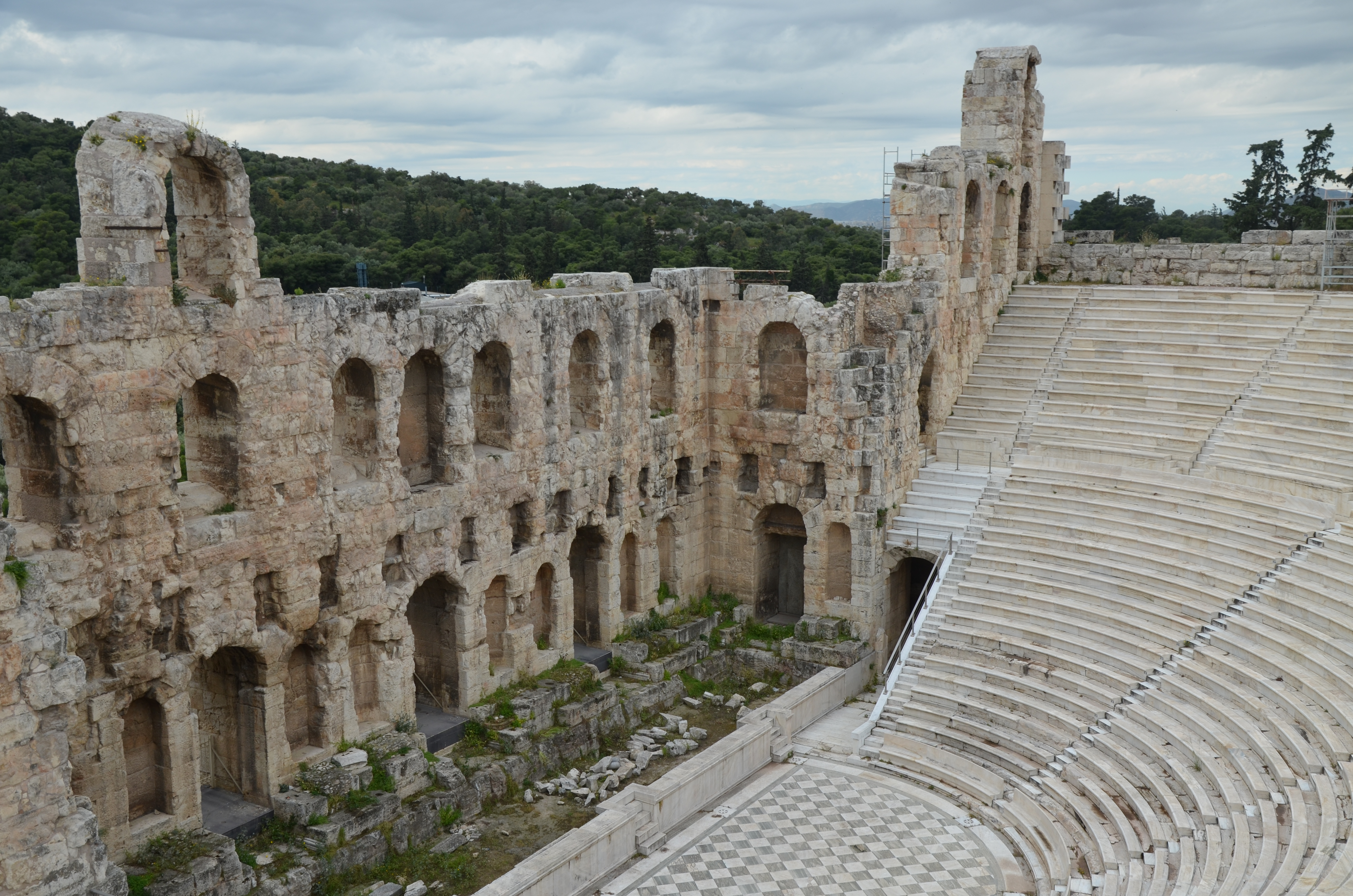 Odeon of Herodes Atticus, built in 161 AD on the south slope of the Acropolis of Athens in memory of his wife Annia Regilla, Athens, Greece